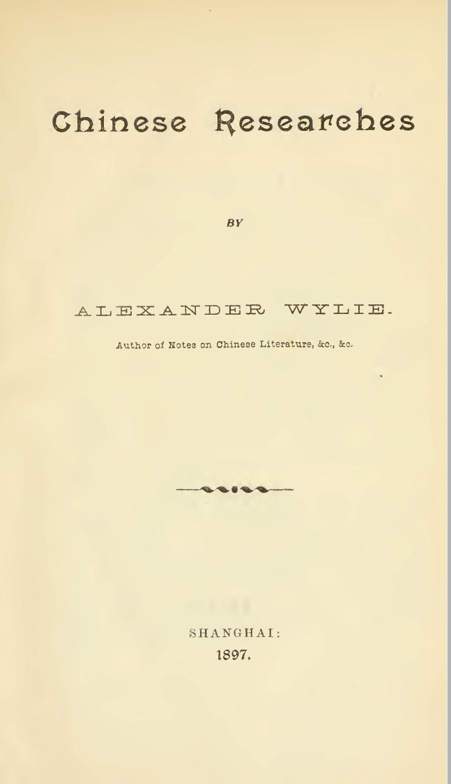 Front page of Alexander Wylie's book Chinese Researches